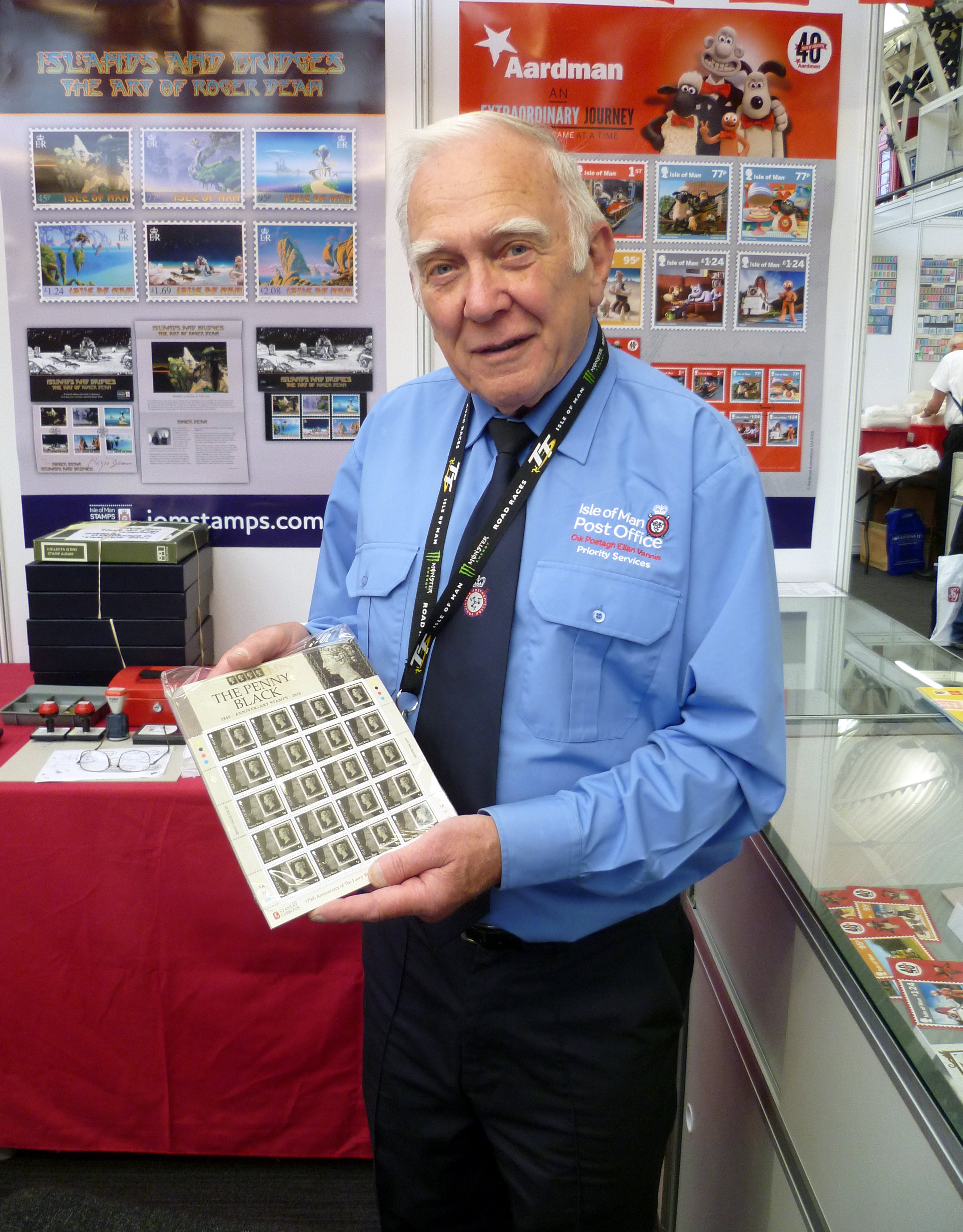 Isle of Man Post Office staff and penny black stamps